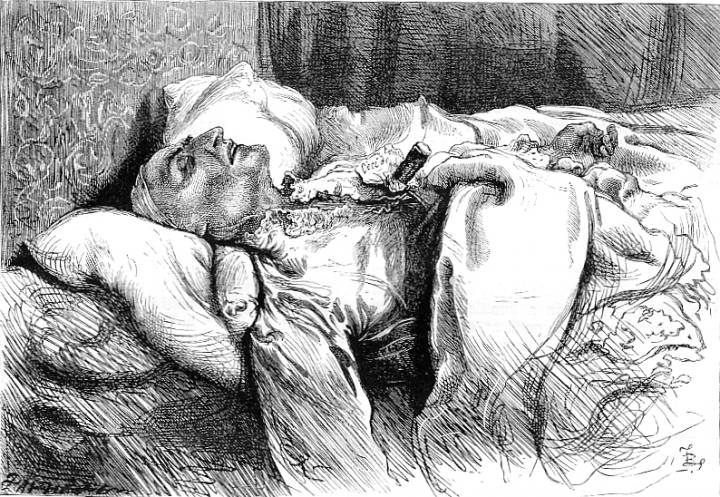 A Tale of Two Cities, The mask-like visage of the murdered Marquis St. Evrémonde, by Fred Barnard